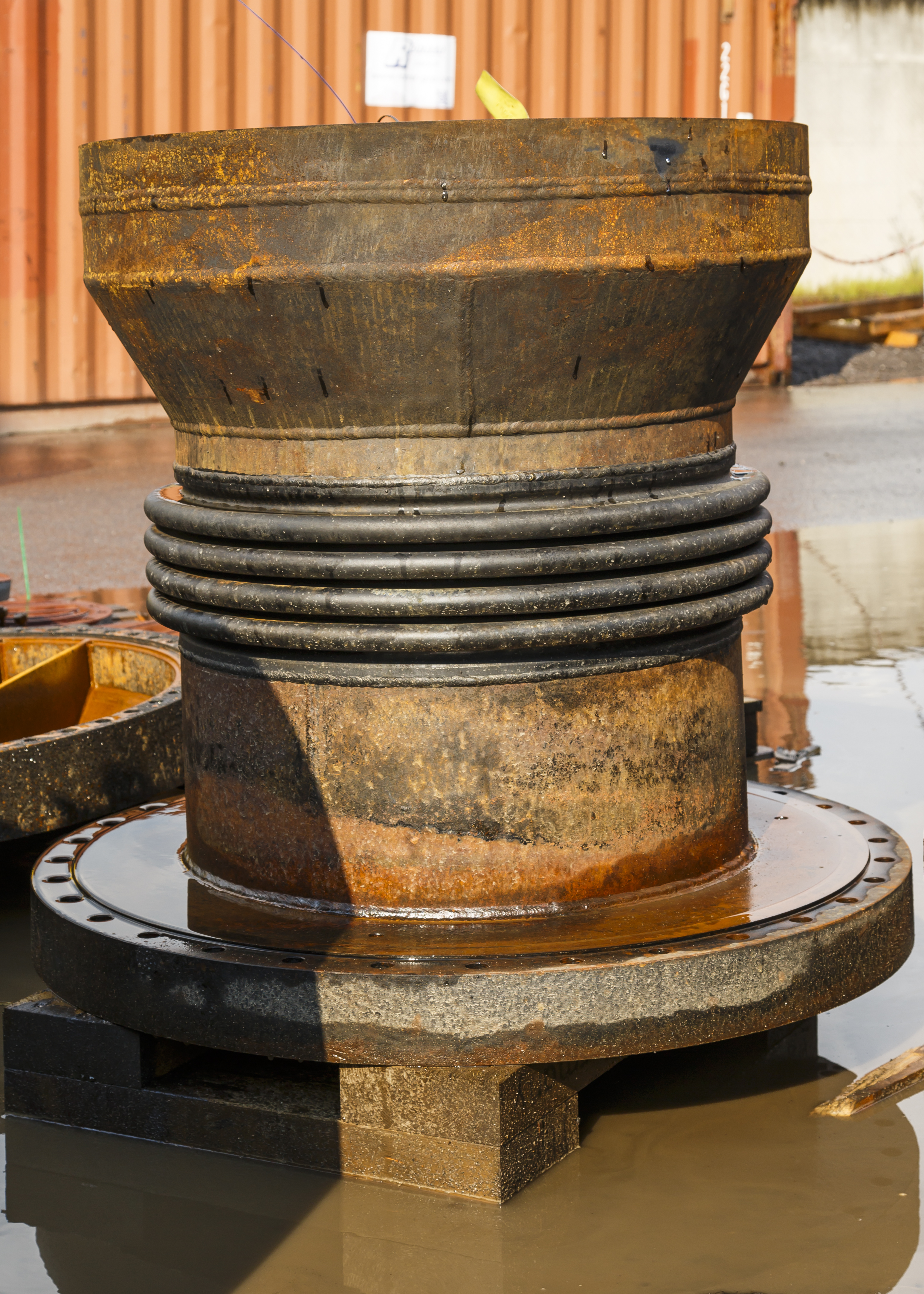 Cologne, Germany: An industrial compensator as part of the tube side of a heat exchanger